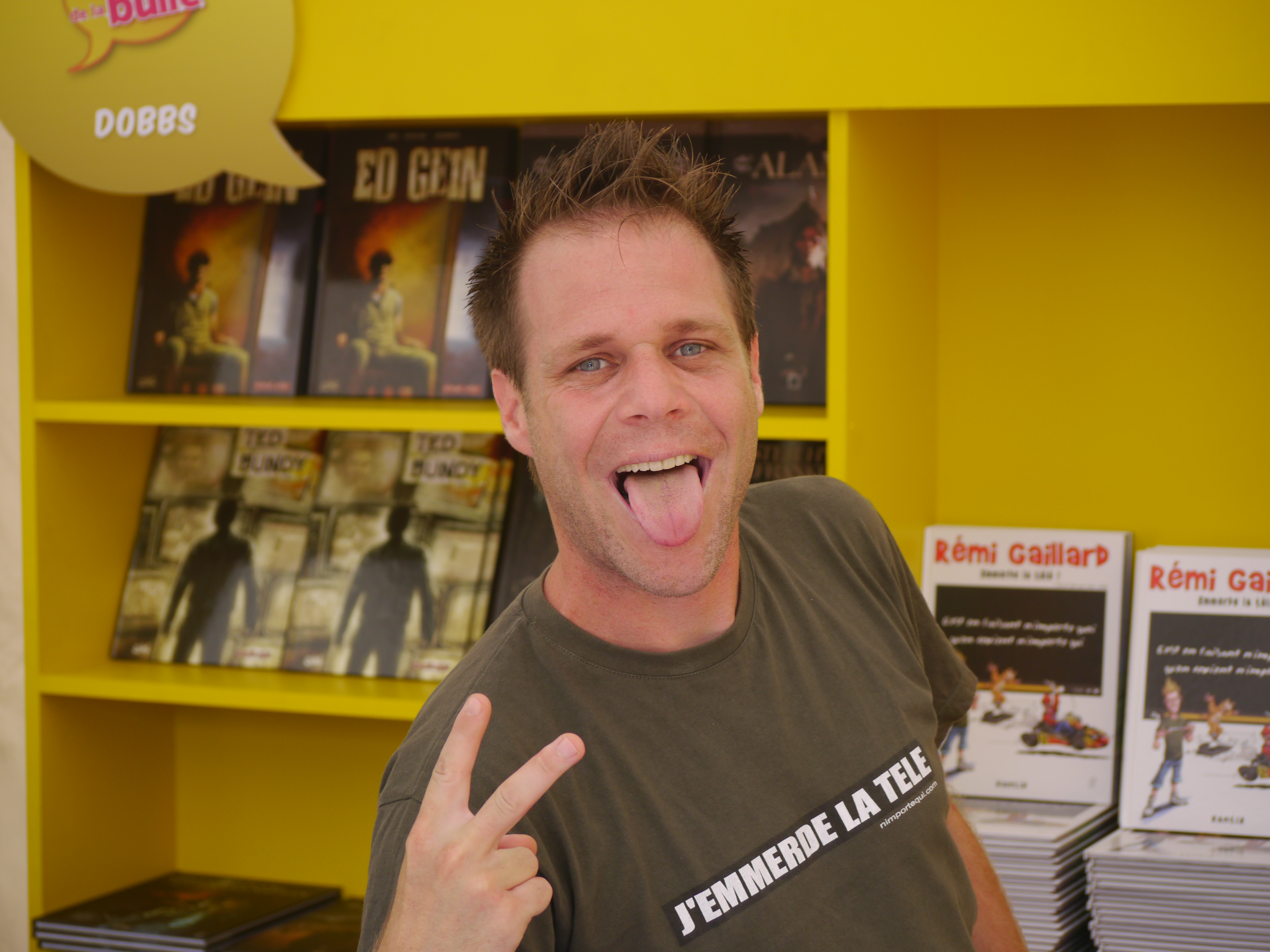 Comic Strip Festival of Montpellier - O Tour de la Bulle 2011